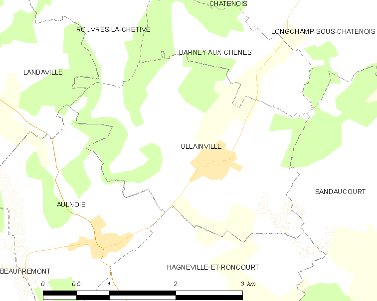 Map of French municipality Ollainville